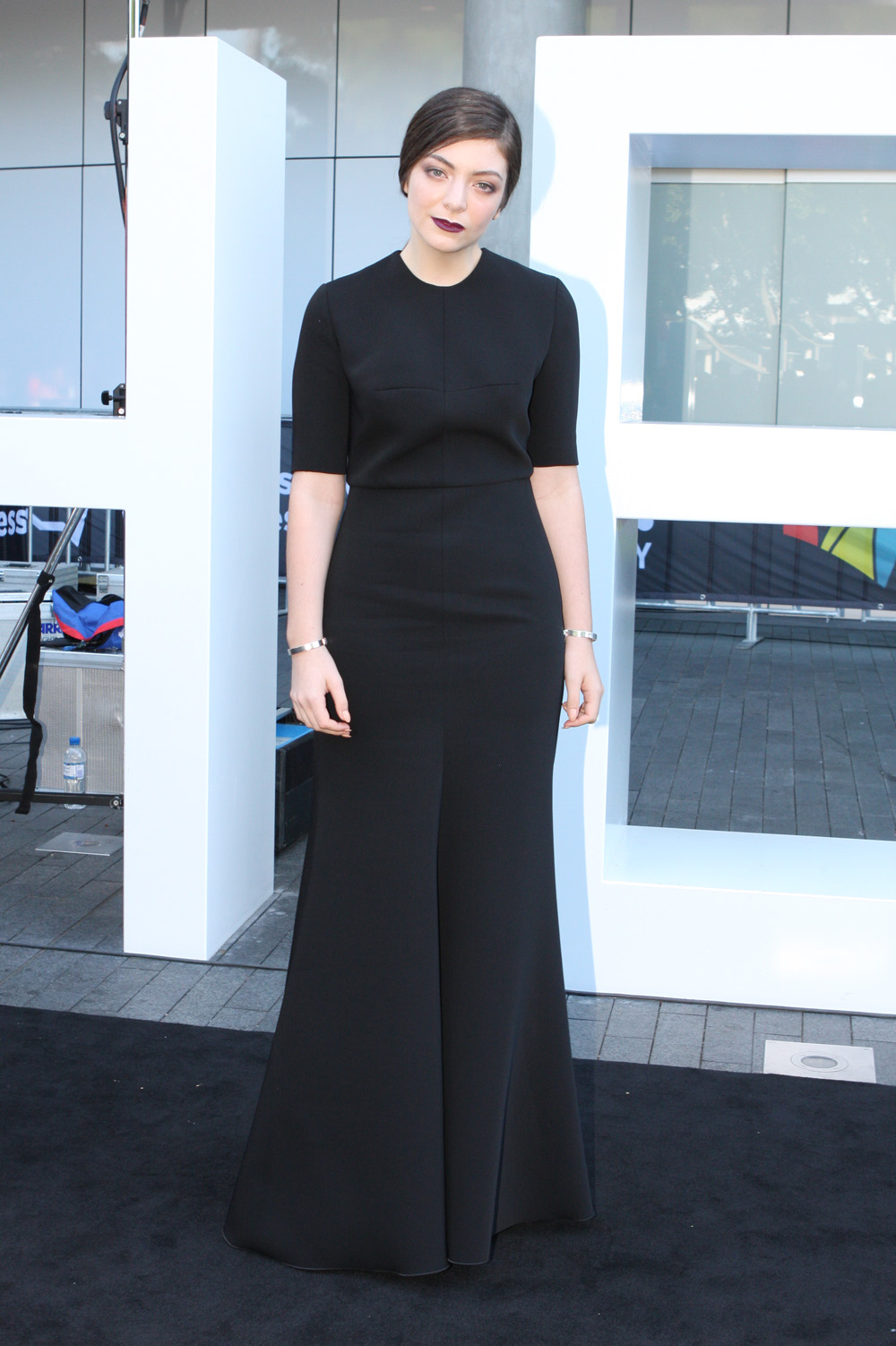 New Zealand singer-songwriter Lorde at the ARIA Music Awards of 2013